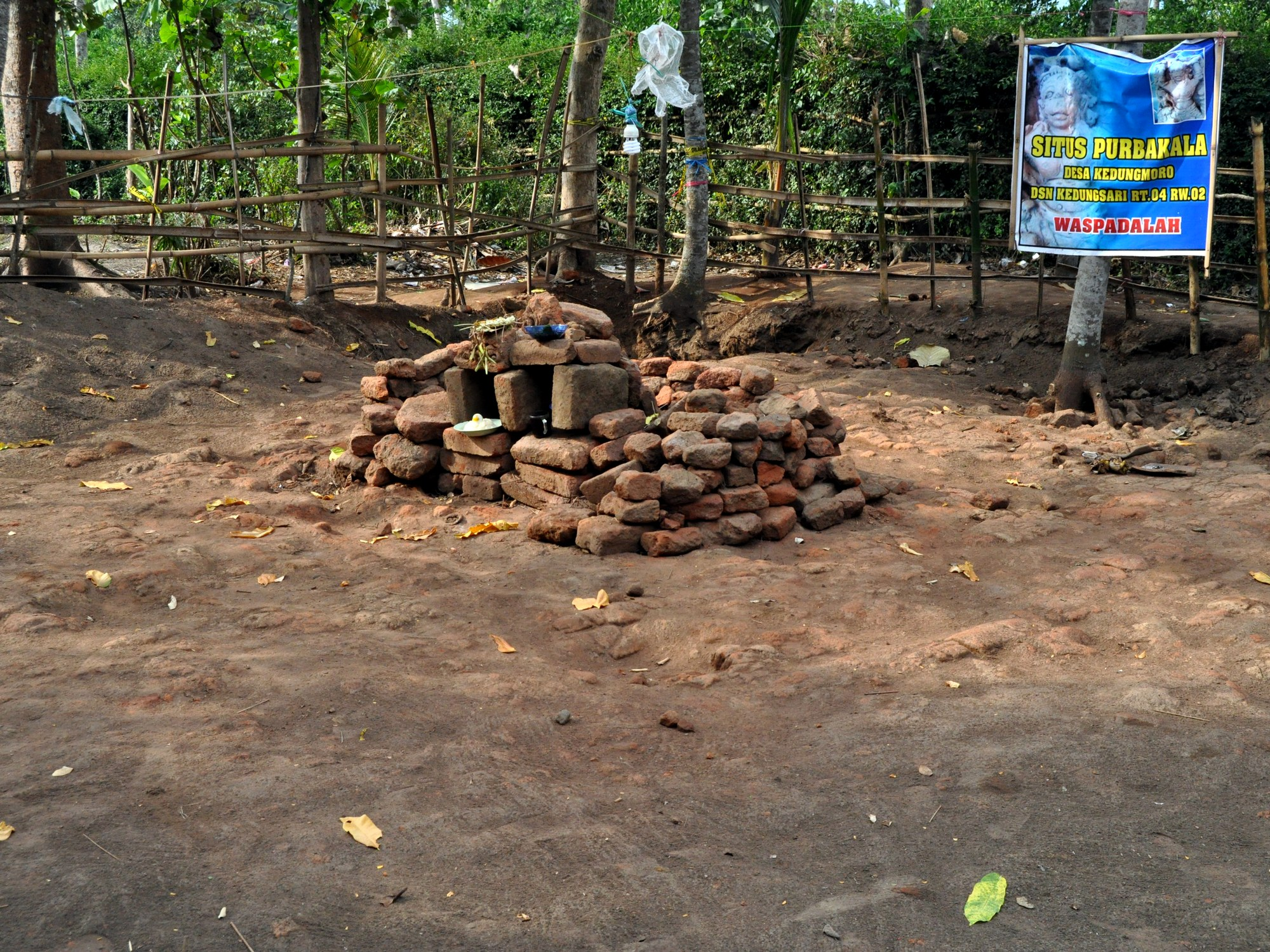 Ruins of Kunir Temple, Kunir, Lumajang, East Java, Indonesia.